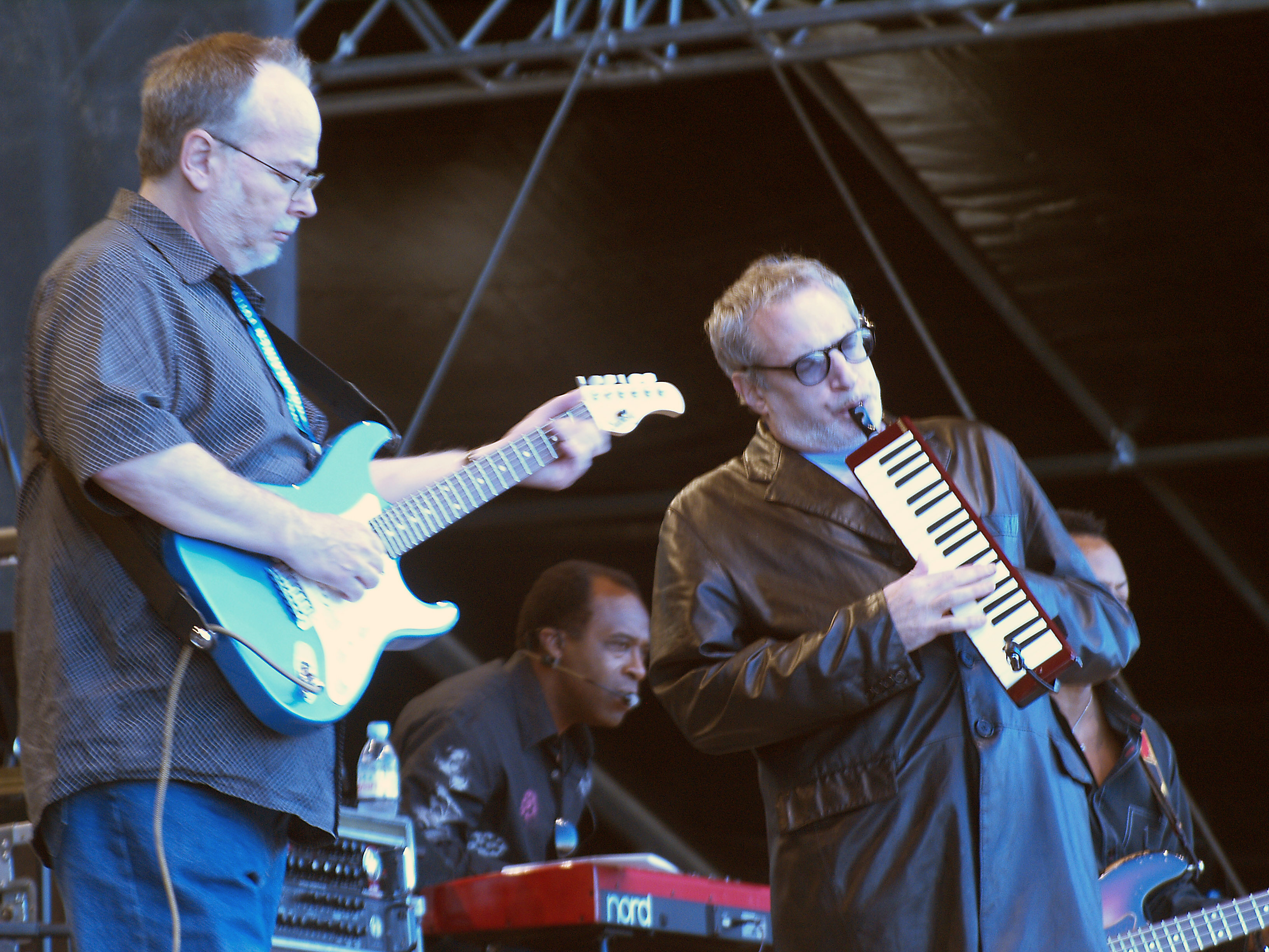 Steely Dan performing at the Pori Jazz Festival in Pori, Finland, July 2007. The wind instrument with keyboard at the right is a melodica, variously known as a pianica, blow-organ, key harmonica, or melodyhorn.